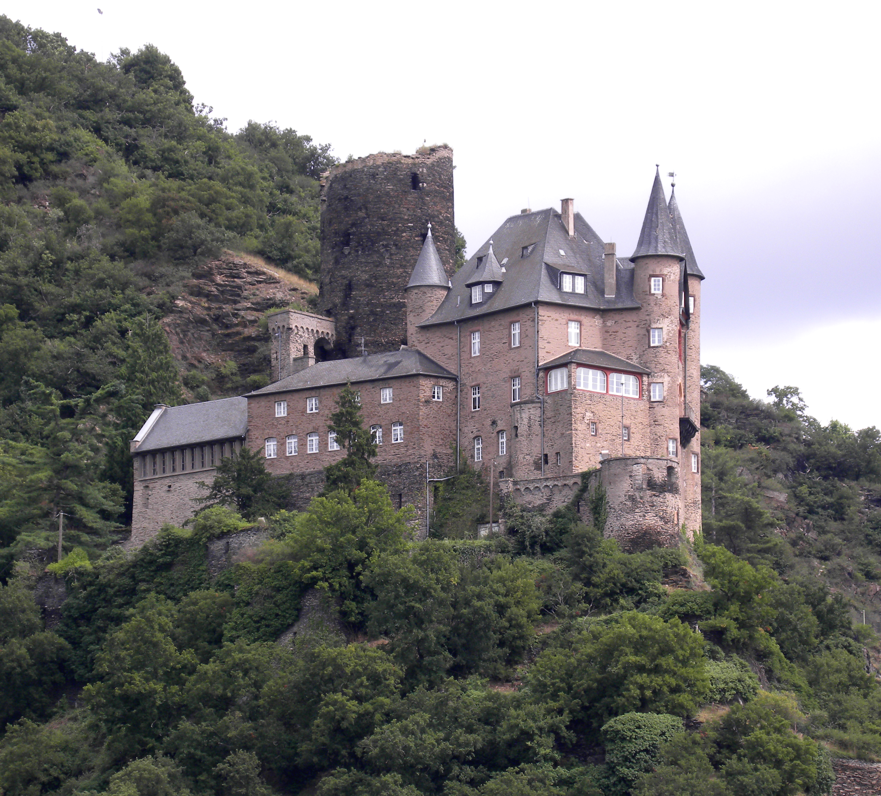 Burg Katz on the Rhine River.